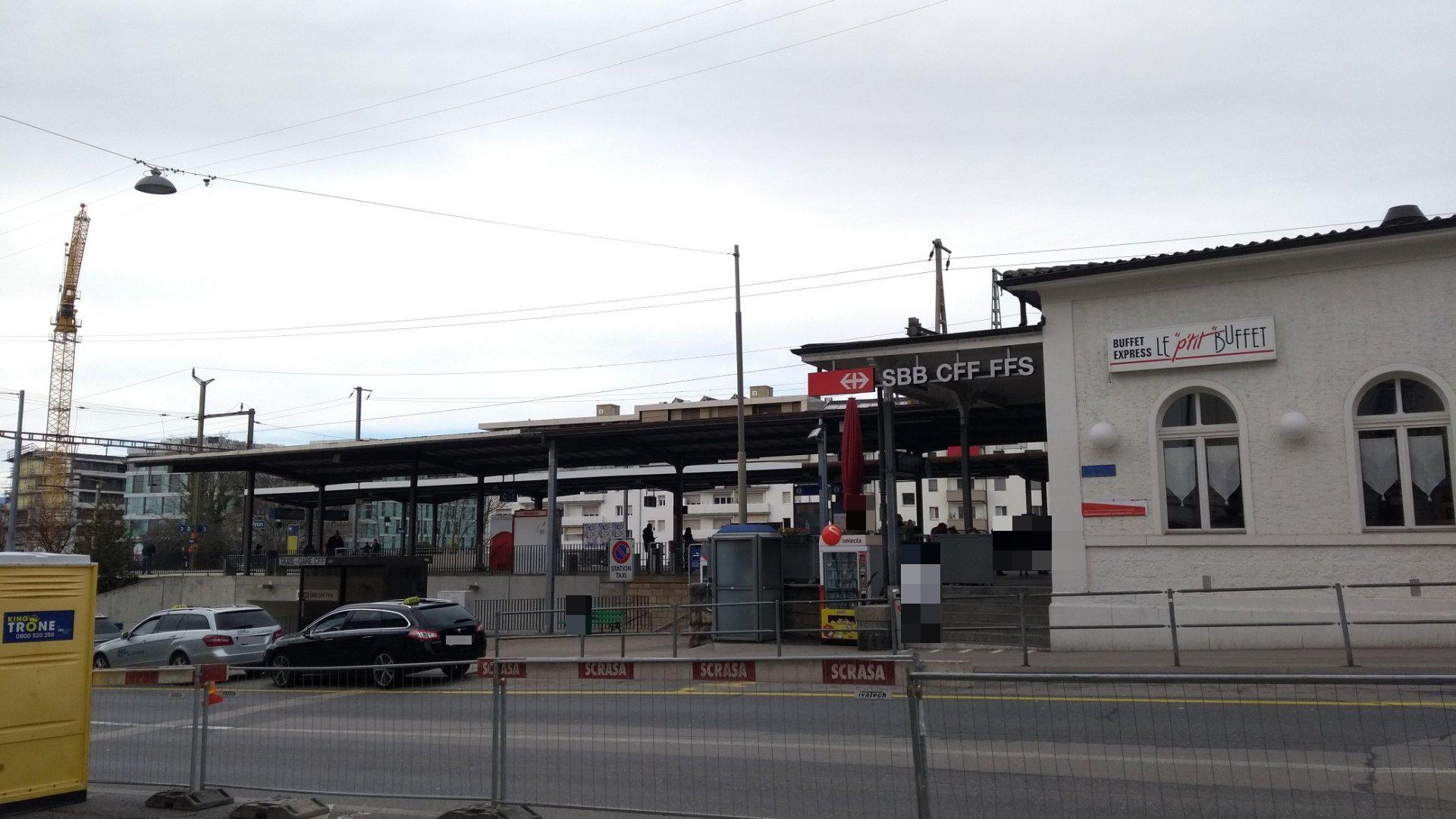 Nyon railway station in Nyon, Switzerland.